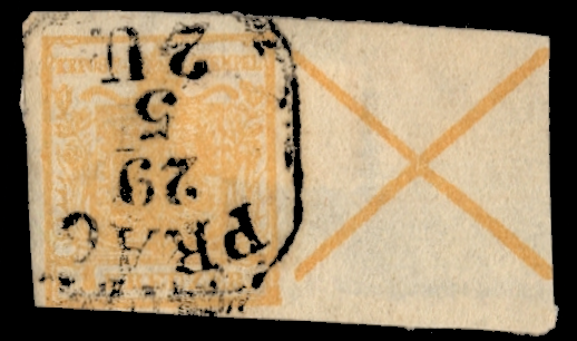 1850 Austro-Hungarian Empire 1kr yellow postage stamps se-tenant with St Andrew's Cross label